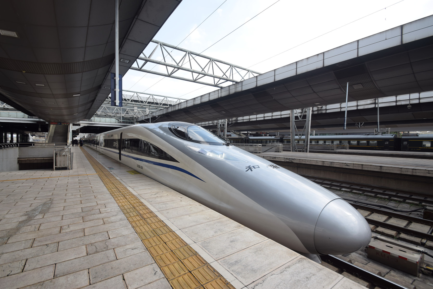 CRH380A-2868 EMU was stopping at Platform No.2 of Kunming Railway Station.